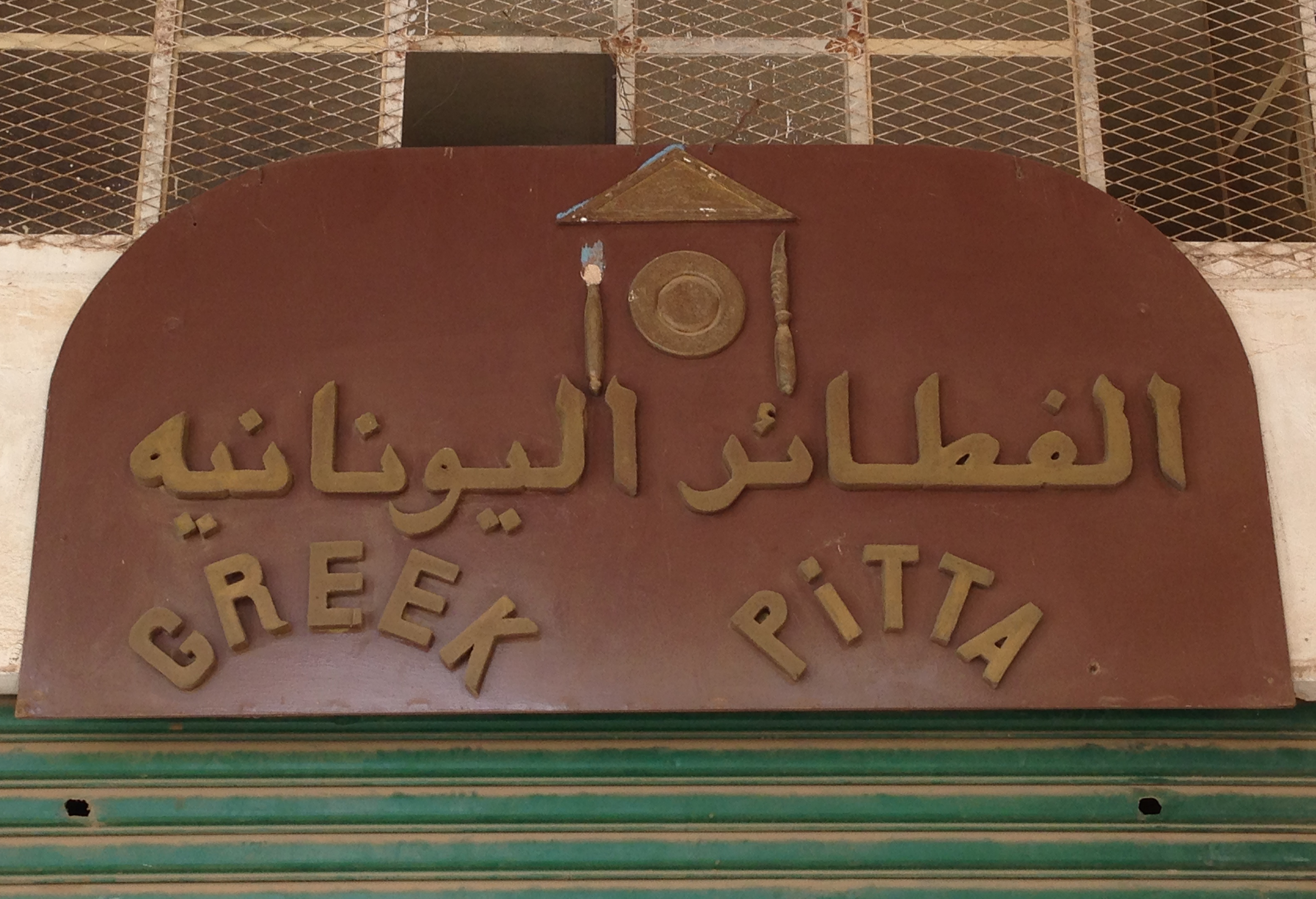 The "Greek Pitta" bistro run by a Sudanese-Greek couple in Barlaman Avenue, Khartoum, Sudan